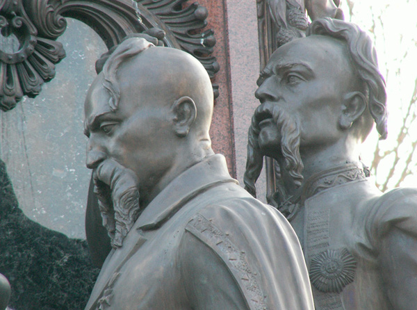 Detail of the monument to Ekaterina the Great in Krasnodar (former Ekaterynodar). First & second atamans of Black Sea cossacs — Sidor Bely & Zakhary Chepega are shown.